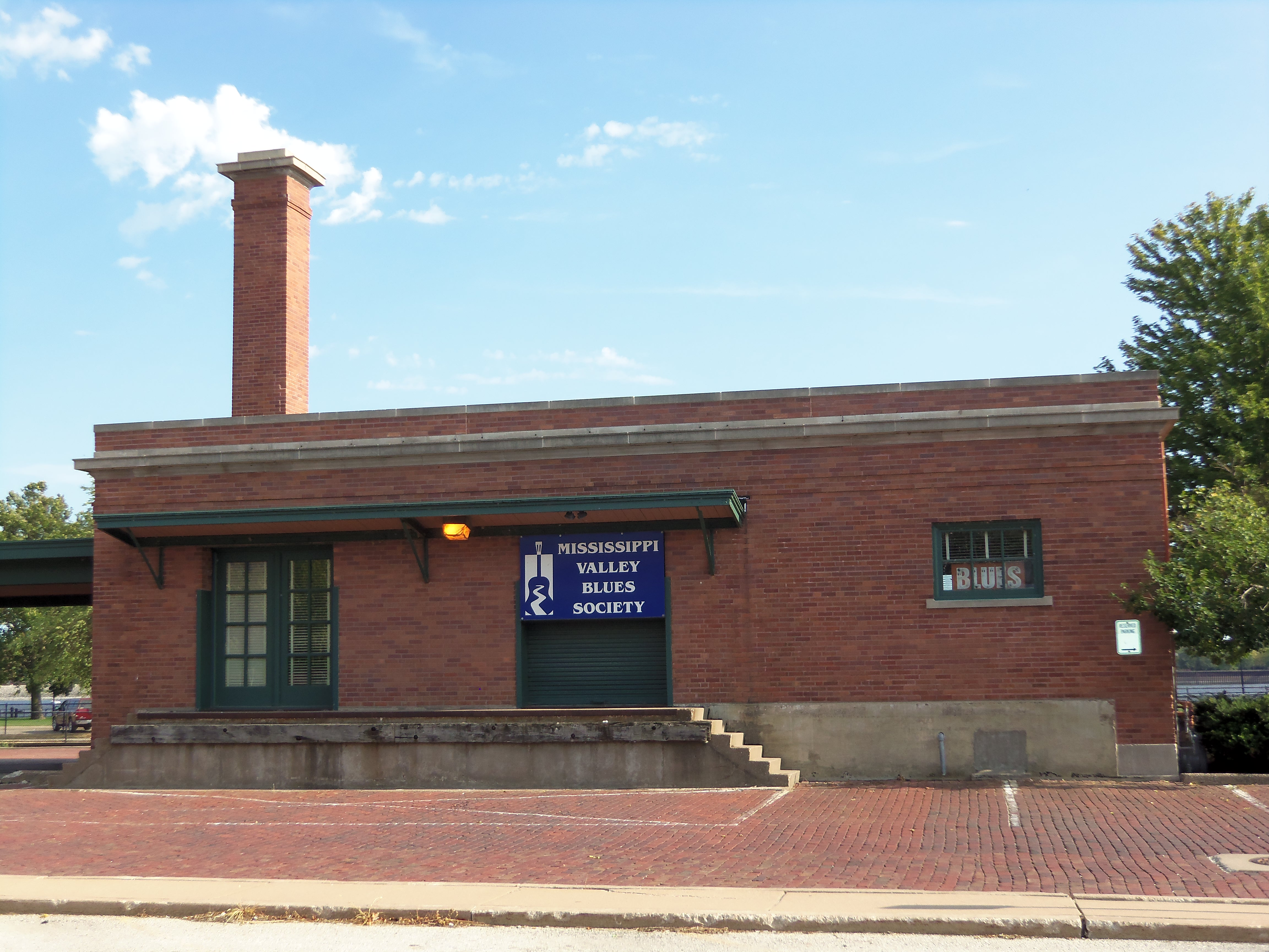 The Burlington Freight House in Davenport, Iowa is listed on the National Register of Historic Places.